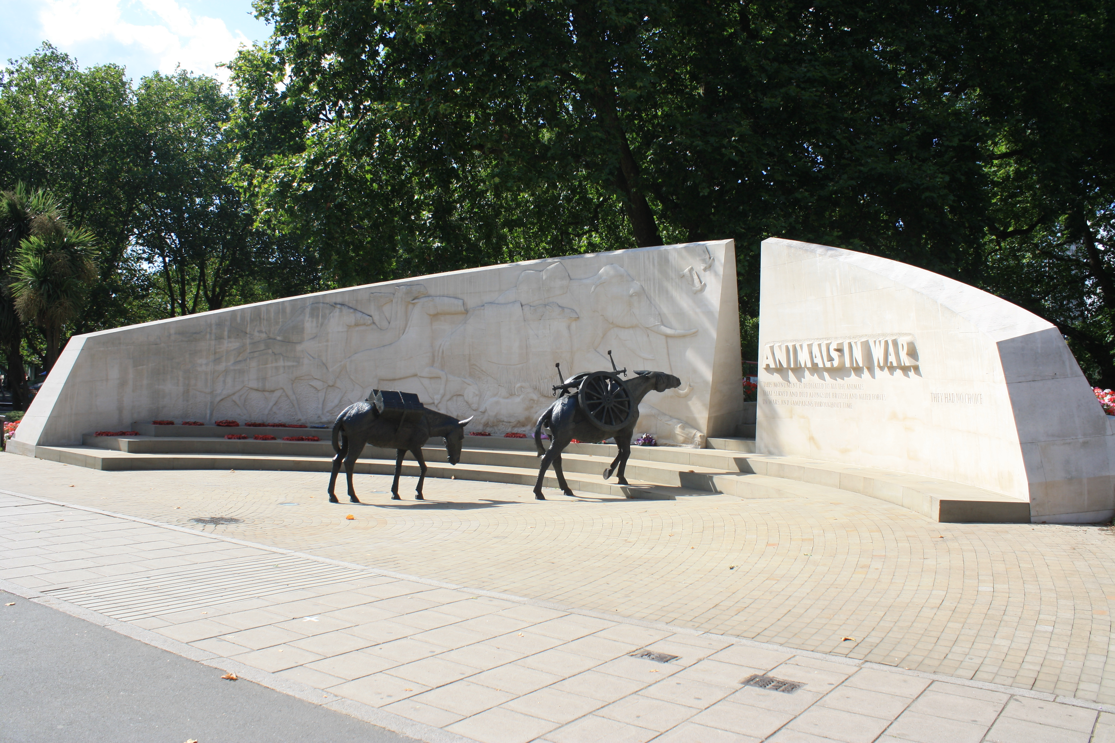 Animals in War Memorial in Park Lane, London